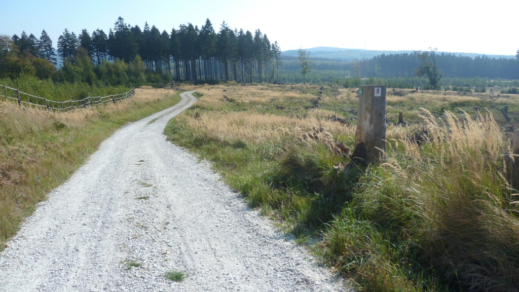 Hiking trail Soonwaldsteig